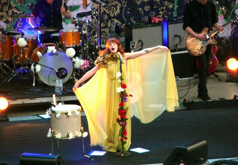 Florence and the Machine concert on June 12, 2011 at the Berkeley Greek Theater.